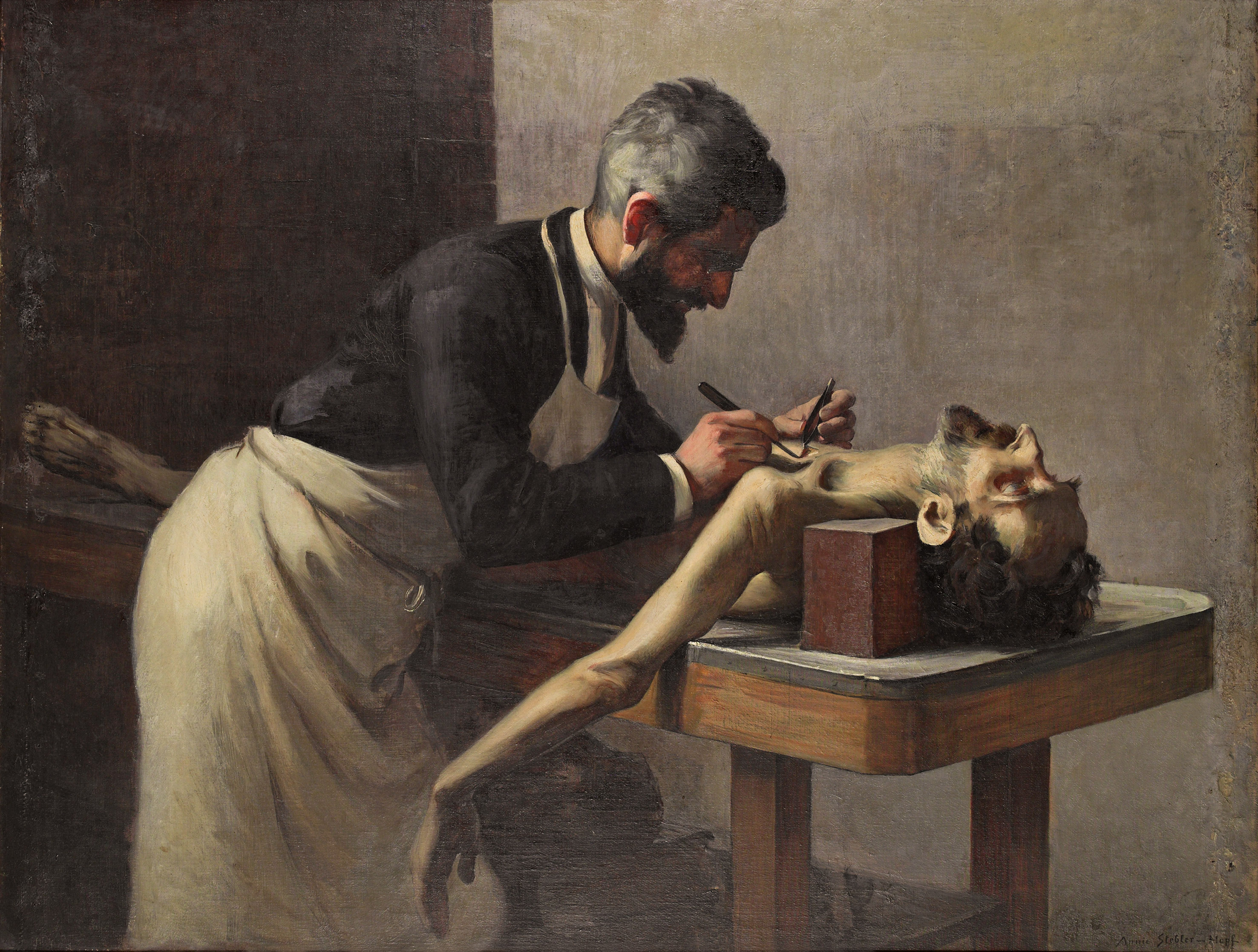 Annie Stebler-Hopf - Autopsy (Professor Poirier, Paris) 1889